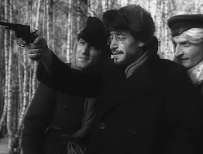 A screetshot in Sverdlov movie, 1940. Yakov Sverdlov (Leonid Lyubashevsky) with gun.